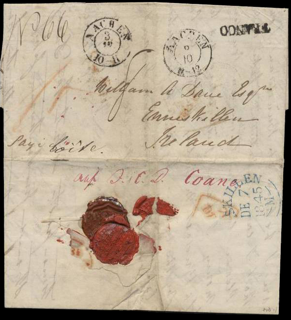 Letter sent from Aachen to Enniskillen, Ireland in 1845